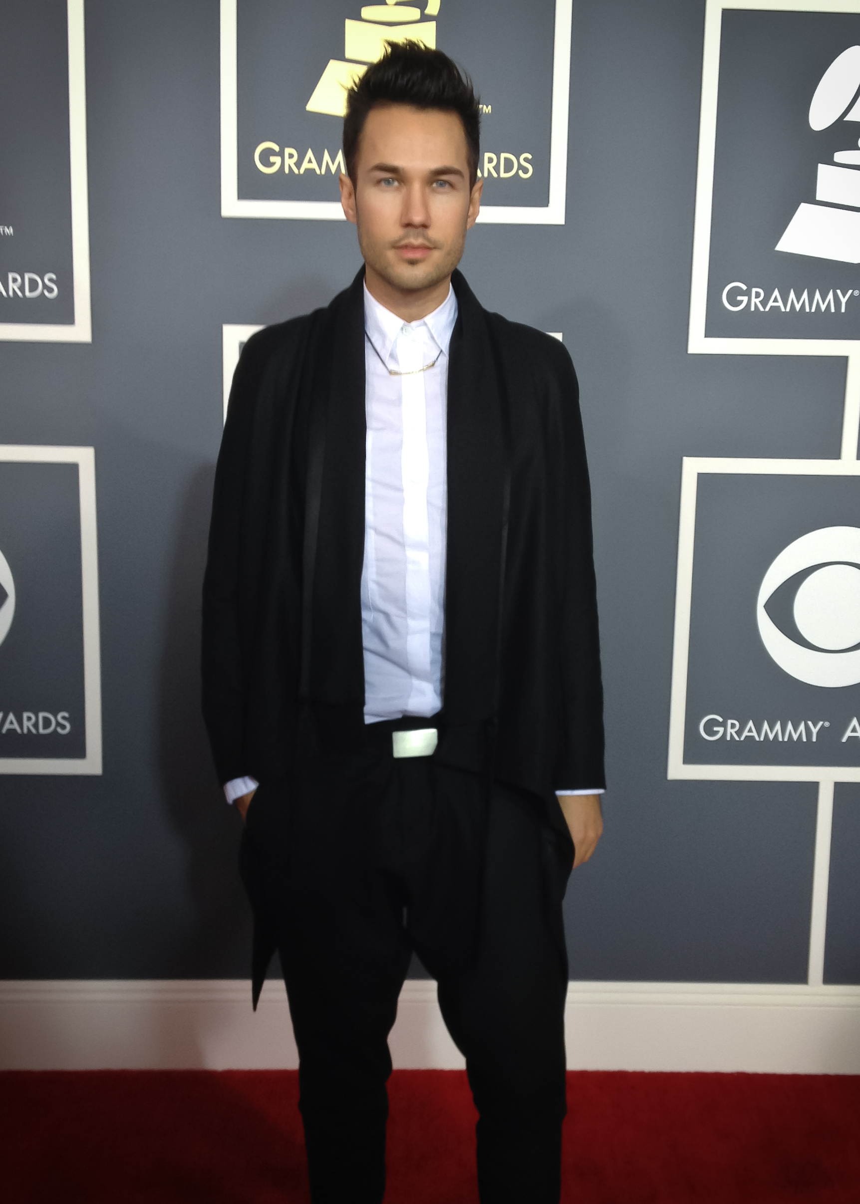 Jonas Myrin arriving at american Grammy Awards 2013